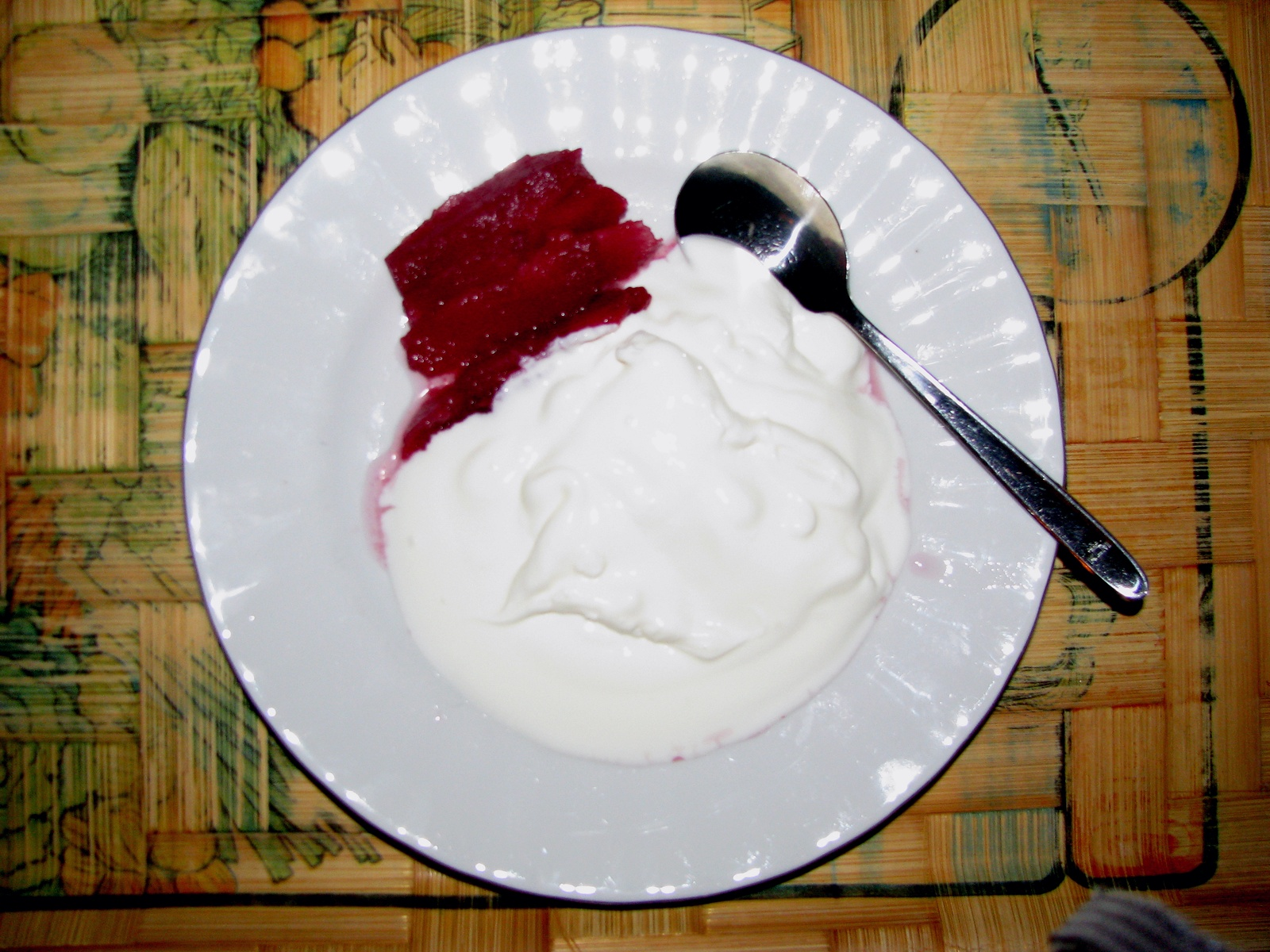 Hangop, which literally means "hang up", a Dutch drained yogurt. Here a traditional dessert made of dished up with cooking-pears.